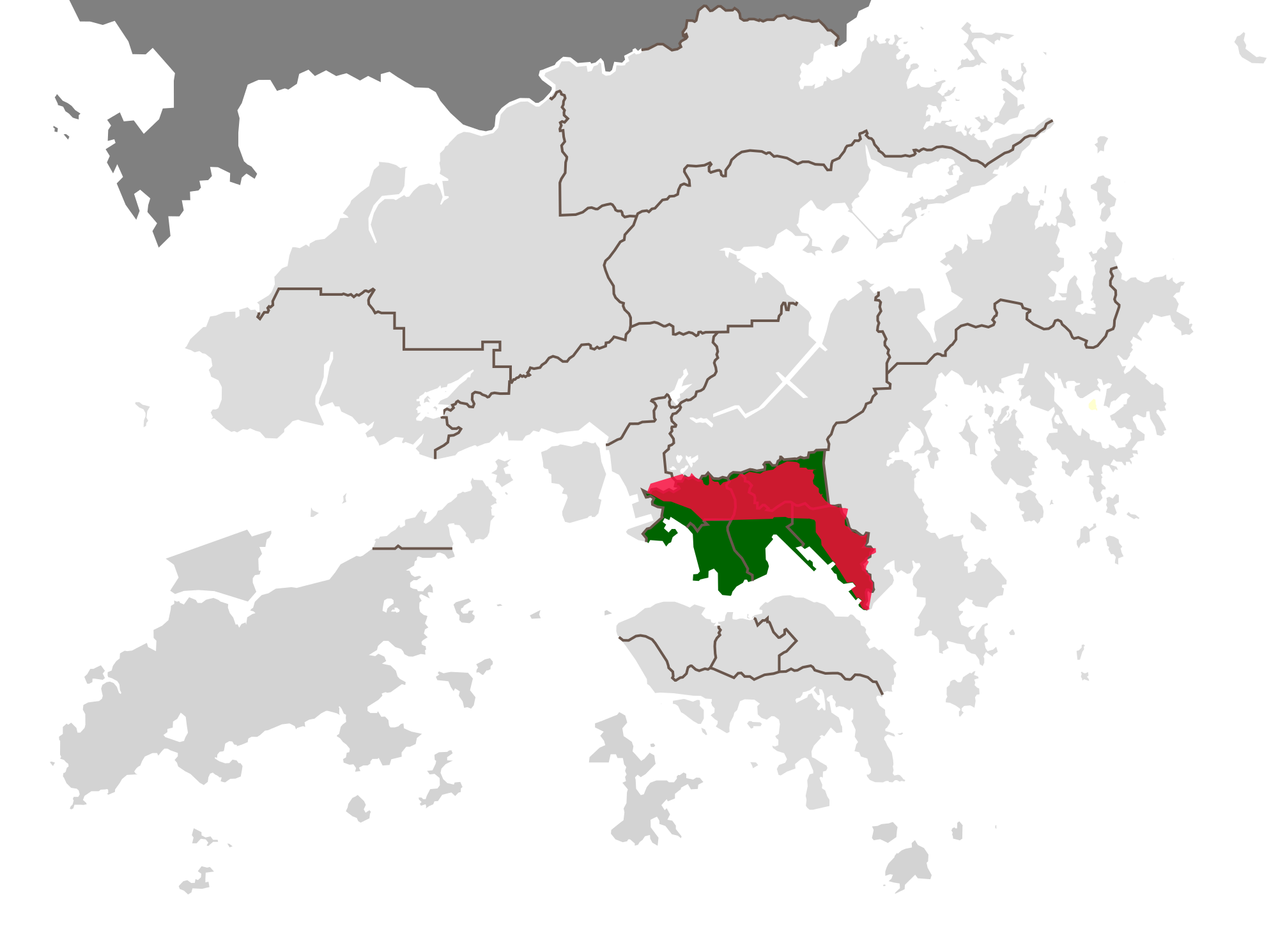 Range of New Kowloon (Pink), The range of Kowloon nowadays is painted with green colour.